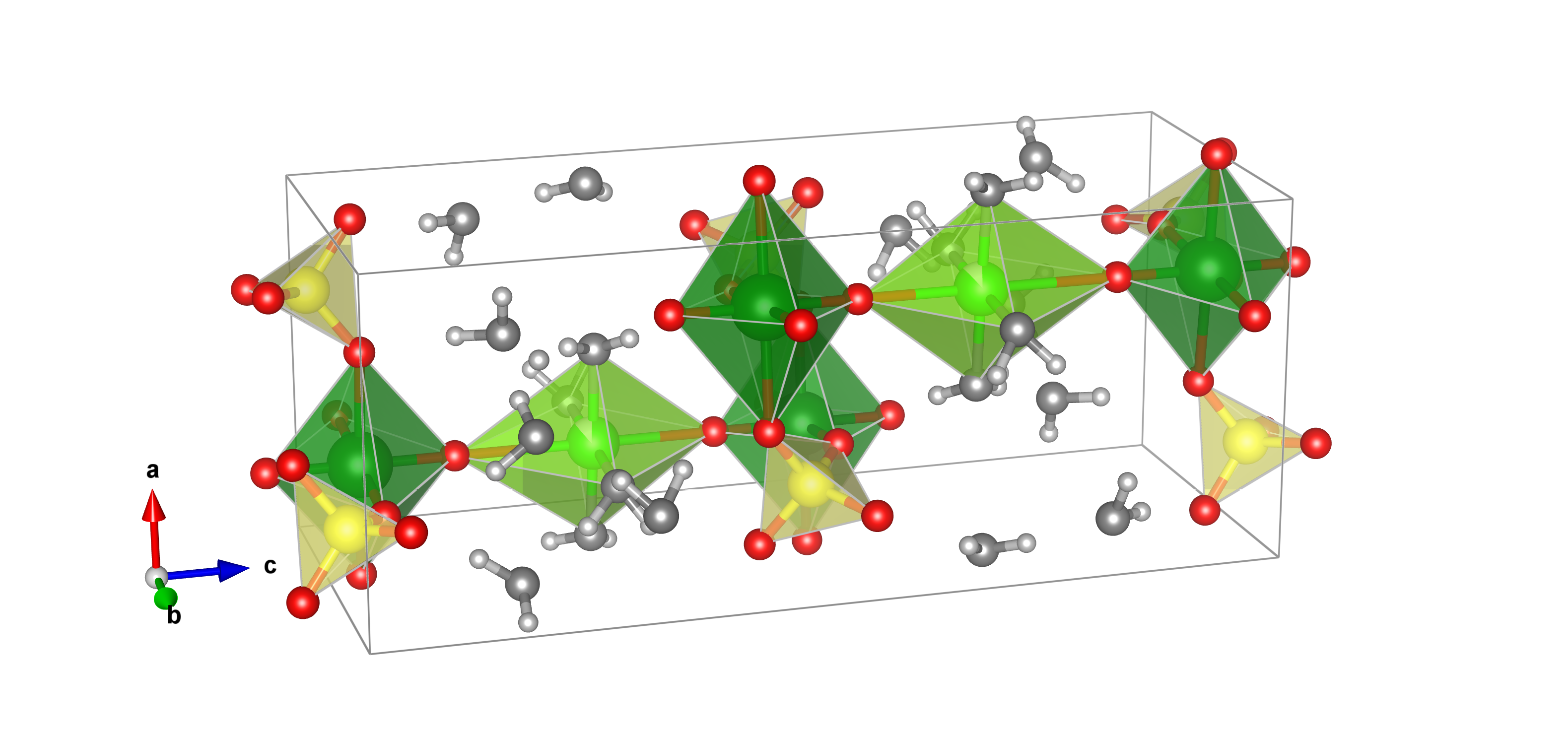 Unit cell of synthetic metatorbernite (Cu[(UO2)(PO4)]2(H2O)8) (U = dark green, Cu = light green, O = red, P = yellow, O(H2O) = grey, H = lightgrey)